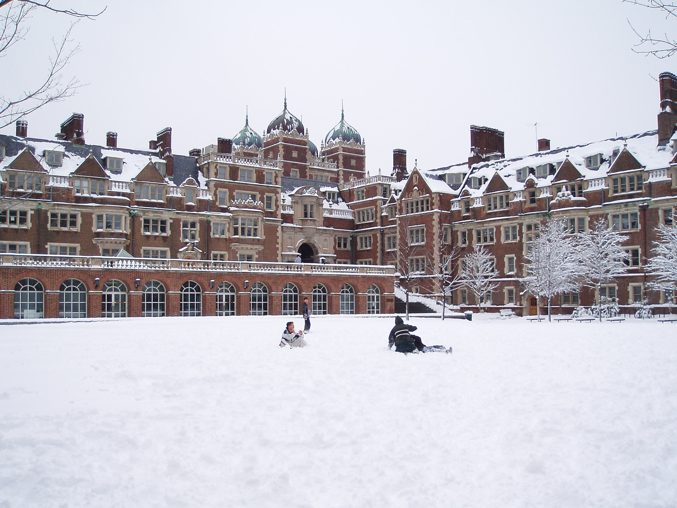 North American blizzard of 2006 in the Quad at Penn